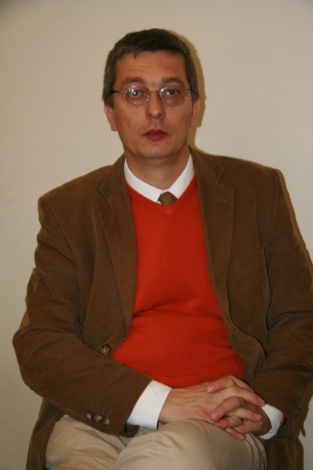 Doc. PhDr. Zdeněk Vojtíšek Th.D. (* 22 February 1963) is a religionist primarily engaged in the study of cults, sects and new religious movements. Photo taken at the Charles University in Prague, during an interview with the newspaper The Epoch Times.